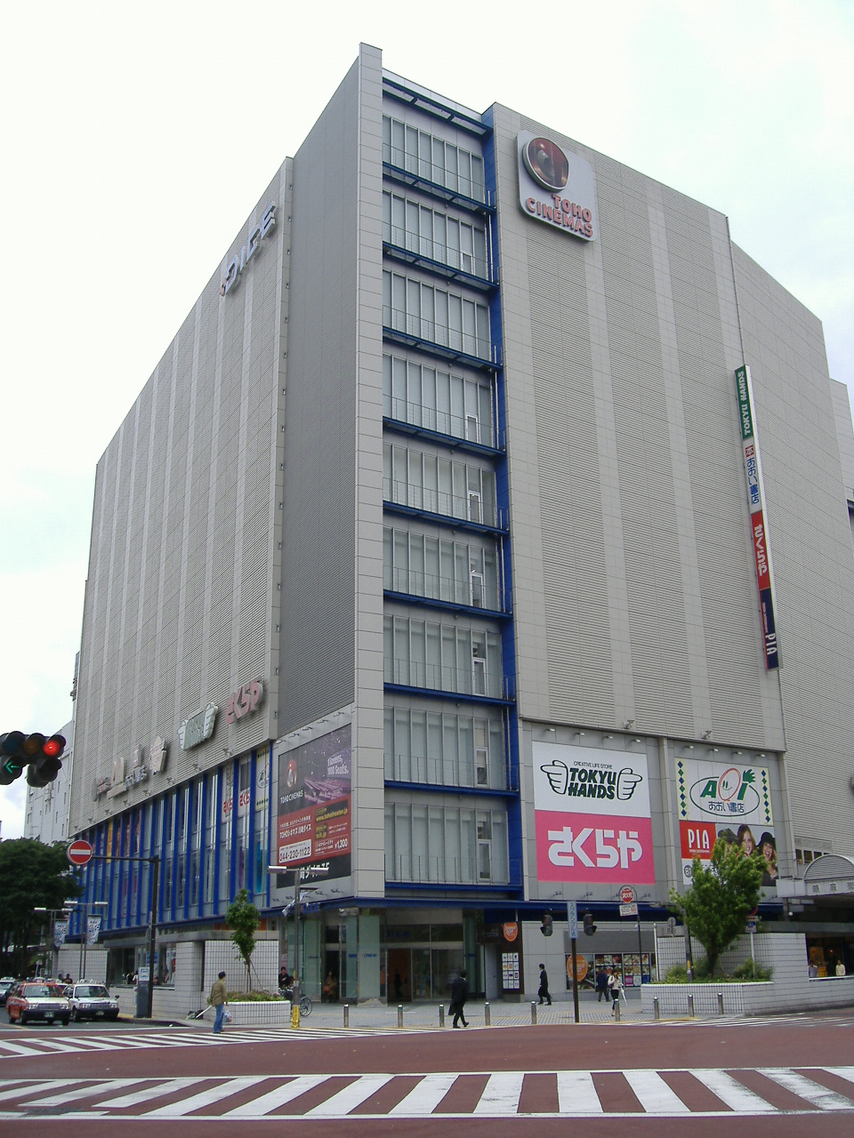 Kawasaki_DICE Shopping mall(Kawasaki, Japan)